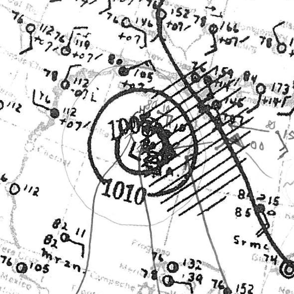 Surface analysis of Hurricane Two of the 1932 Atlantic hurricane season as it approached Texas.